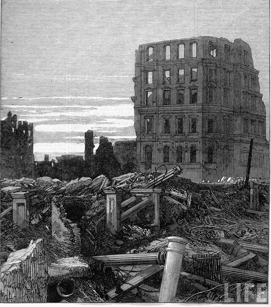 Illustration of the ruins of the National Bank of Chicago destroyed in the Great Chicago Fire.